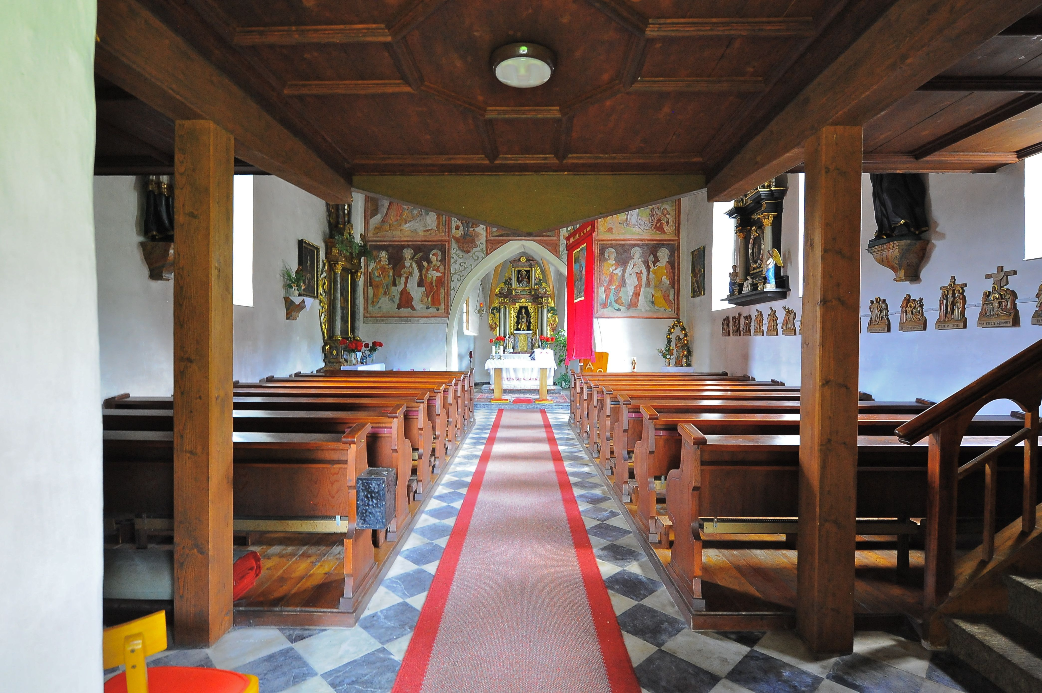 Interior of the subsidiary church Saint Ruprecht at Poeckau, municipality Arnoldstein, district Villach Land, Carinthia / Austria / EU